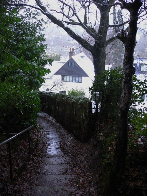 Footpath in Haslemere This is the view downhill from the footpath between Longdene Road and King's Road.